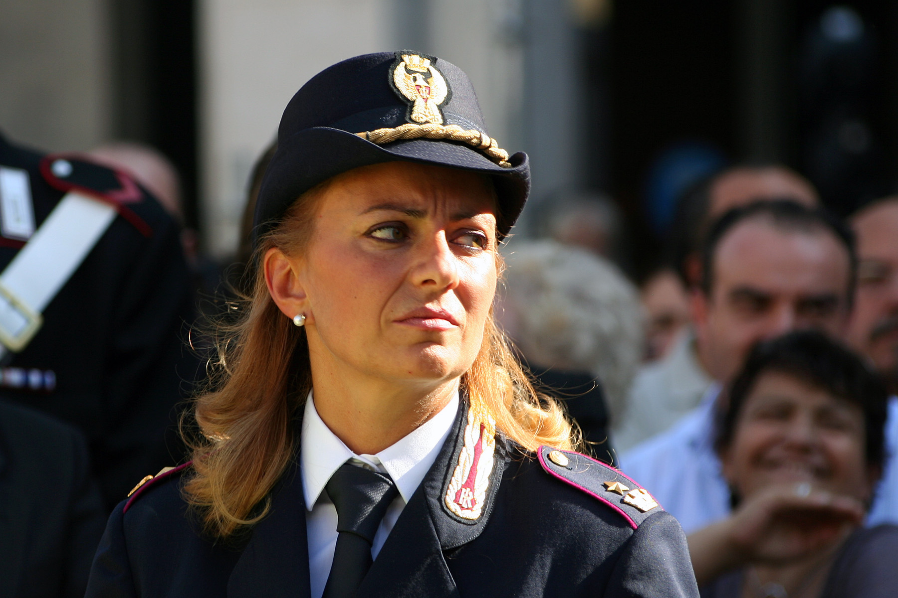 Modena - captain (OF-2) of the Italian Police at Luciano Pavarotti's funeral